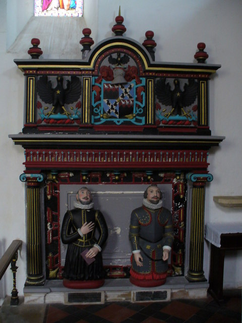 Lovelace Memorial Historic memorial, about 6 feet high, in Hurley's parish church. The Lovelaces lived in nearby Ladye Place. Depicts "Richard Lovelace (1542–1601) and Sir Richard Lovelace (1565–1634), his son and heir. Richard was Lord Lieutenant of the County of Berkshire and Constable of Windsor Castle. Sir Richard was knighted in Dublin at the 'wars against ye Irish'. He was created 1st Lord Lovelace of Hurley in 1627 by Charles I. He erected the memorial." (Paul Dykes[1]). Lord John Lovelace was one of the plotters bringing about the "Glorious Revolution" of 1688. See also[2]. Arms: Quarterly, 1st and 4th: Gules, on a chief indented sable three martlets argent (Lovelace, here shown apparently incorrectly with tinctures of field and chief inverted. Repainted?) 2nd & 3rd: Azure, on a saltire engrailed argent five martlets sable (Hengham) (Source:The General Armory of England, Scotland, Ireland, and Wales, Comprising a ... By Bernard Burke[3])